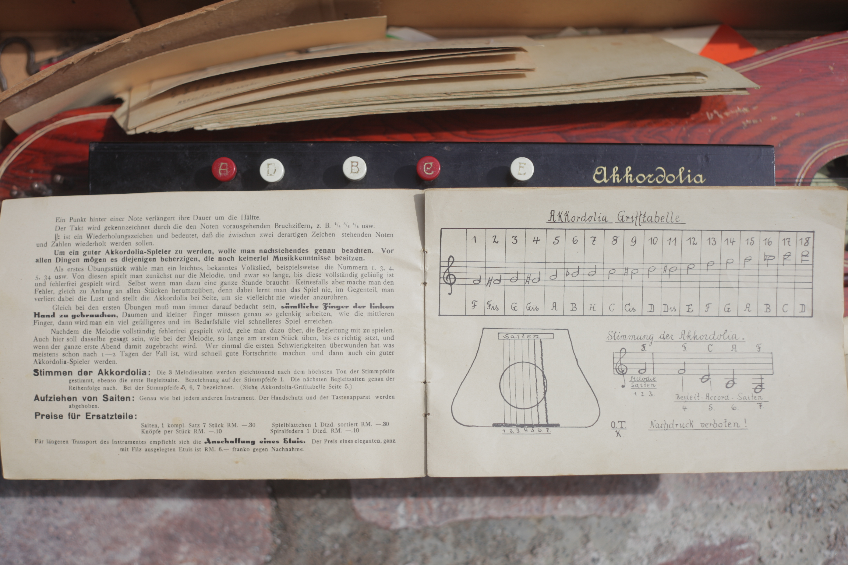 Tuning instruction from the manual. Was printed around 1935.